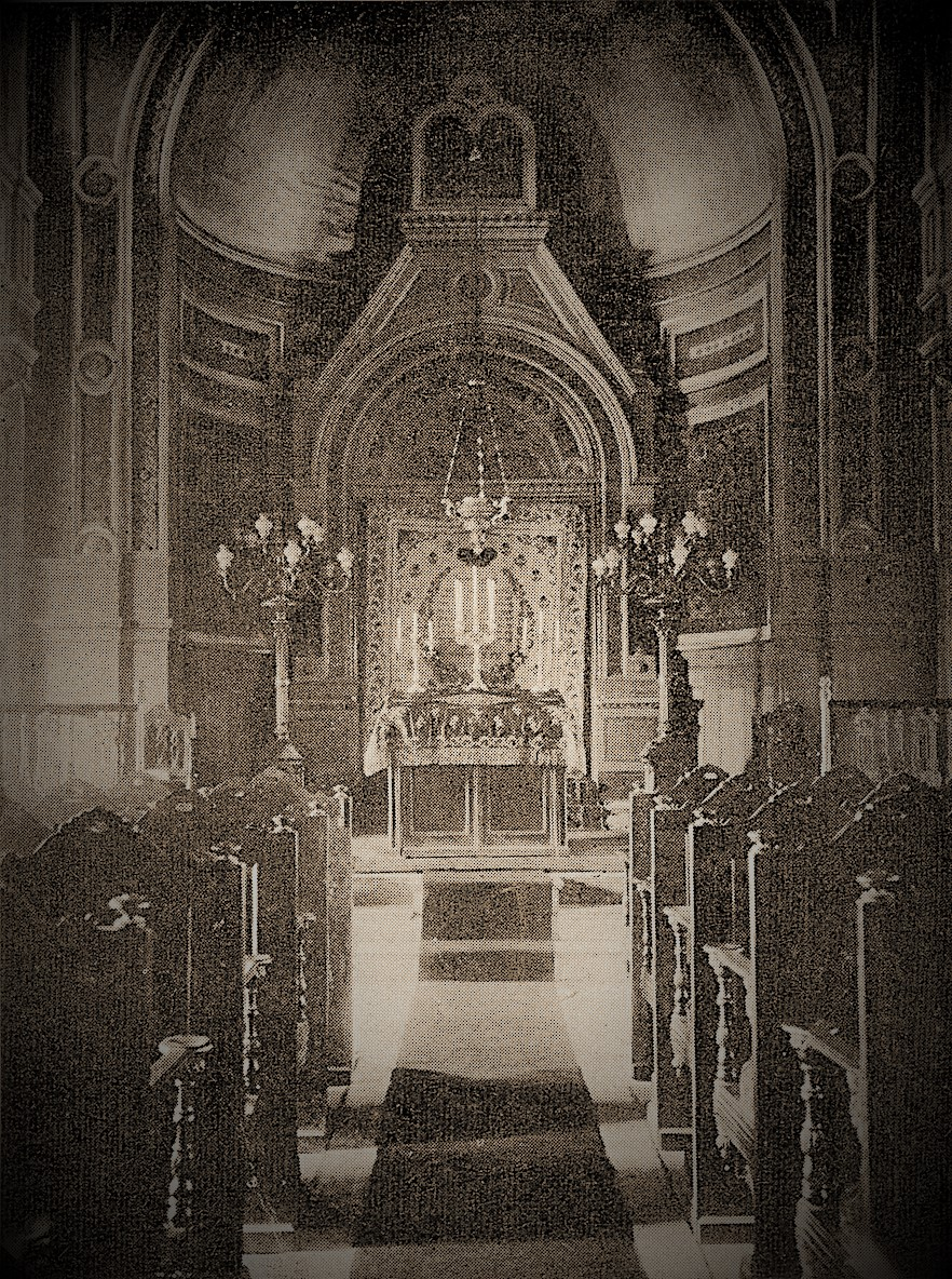 Grand Spanish Temple, "Cahal Grande" synagogue, located on 12 Negru Vodă Street, Bucharest, 1900